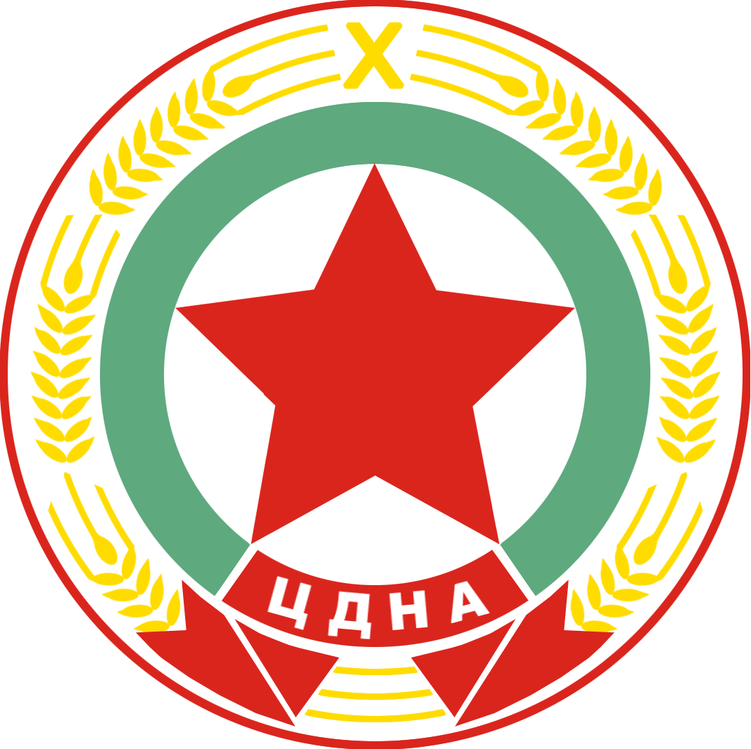 Logo of CDNA Sofia 1954-1962.